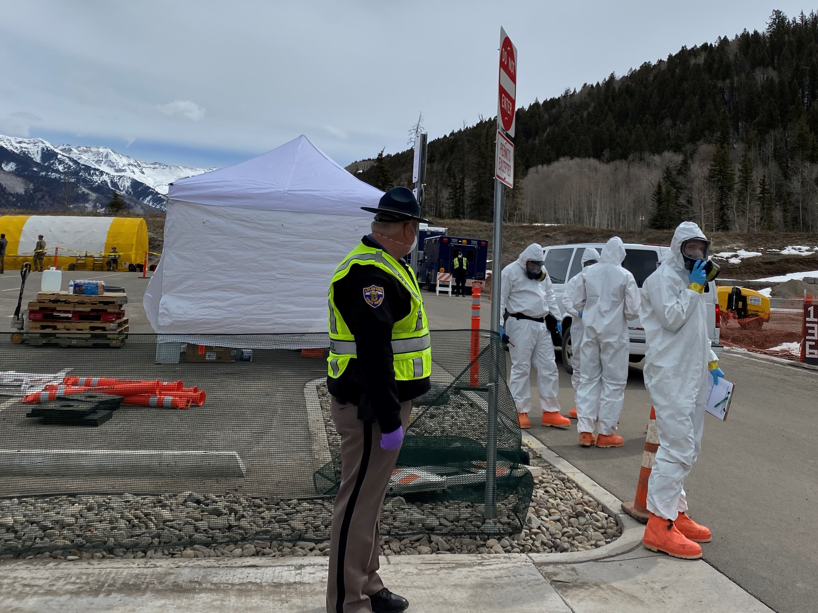 Members of the Colorado National Guard assist San Miguel County and the Colorado Department of Public Health & Environment with a COVID-19 drive-up testing station in Telluride, Colorado, March 17, 2020. The CONG’s 8th Weapons of Mass Destruction-Civil Support Team and Chemical, Biological, Radiological, Nuclear and high-yield Explosive Enhanced Response Force Package are Colorado’s resident trained and equipped experts in biological hazards. Colorado’s 8th WMD-CST and CERFP are available to the governor and Federal Emergency Management Agency Region Eight. (Photo courtesy Jennifer Dinsmore, San Miguel County Sheriff’s Office)